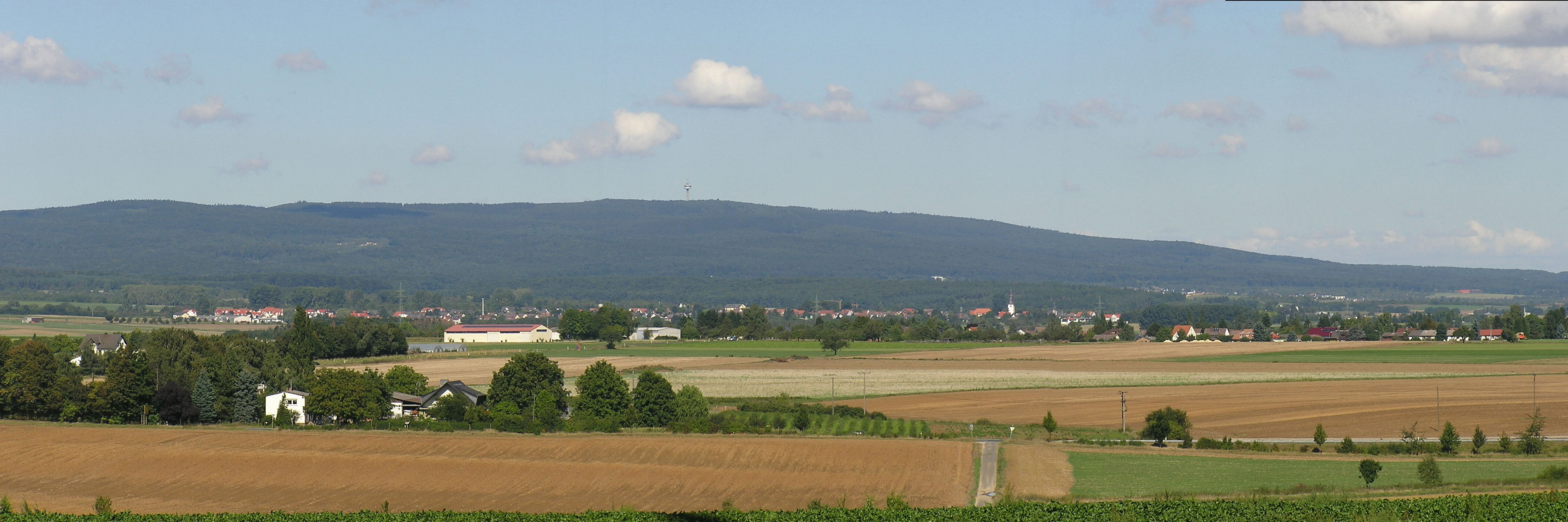 The Winterstein and the tower on the Steinkopf in the Taunus, photographed from Karben.